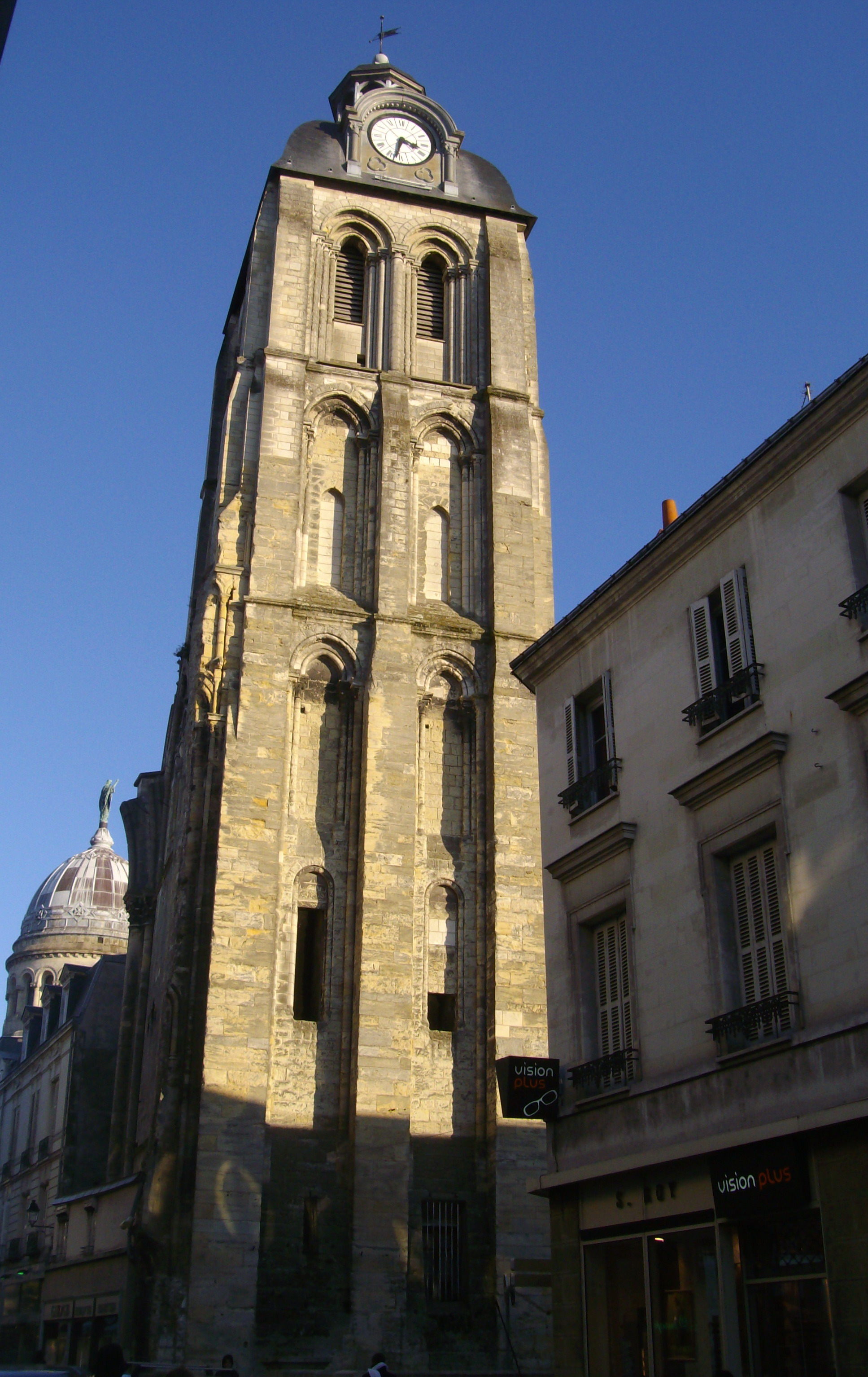 Tour de l'horloge à Tours